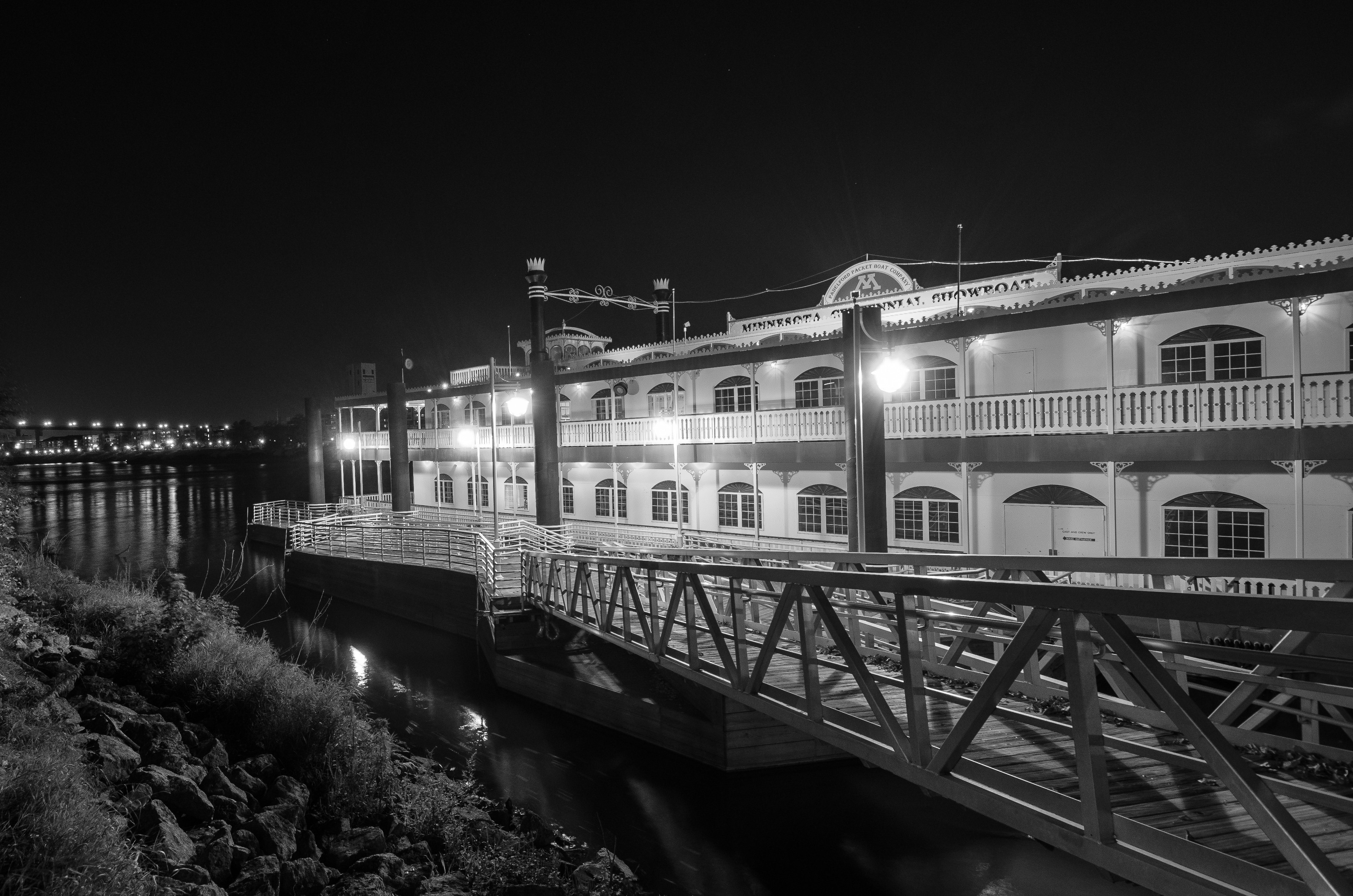 The Minnesota Centennial Showboat on the Mississippi, anchored in Saint Paul, MN, at night.